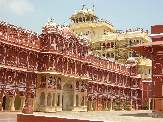 Pritam Niwas with Chandramahal in background